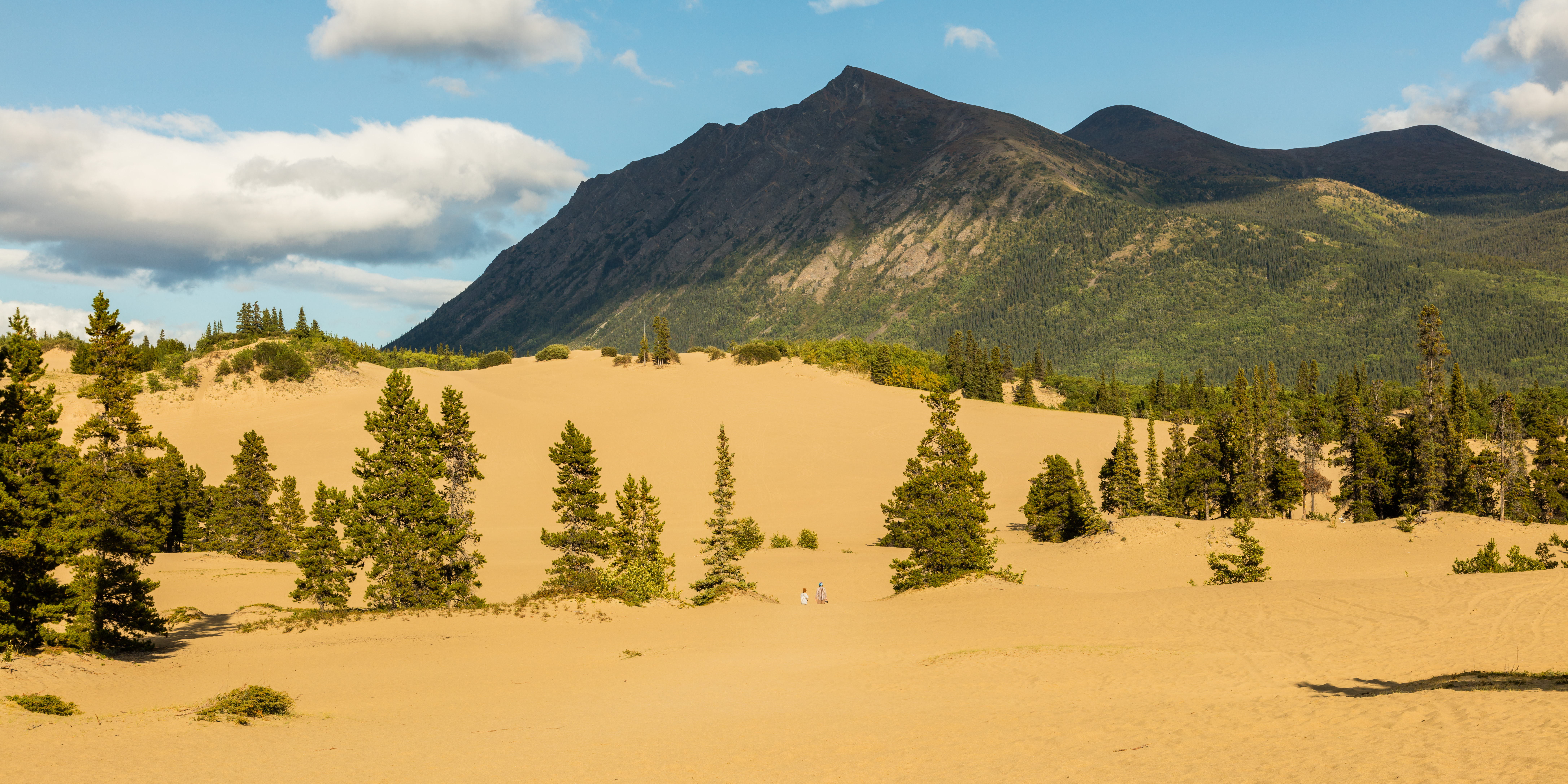 Carcross Desert, Yukon, Canada